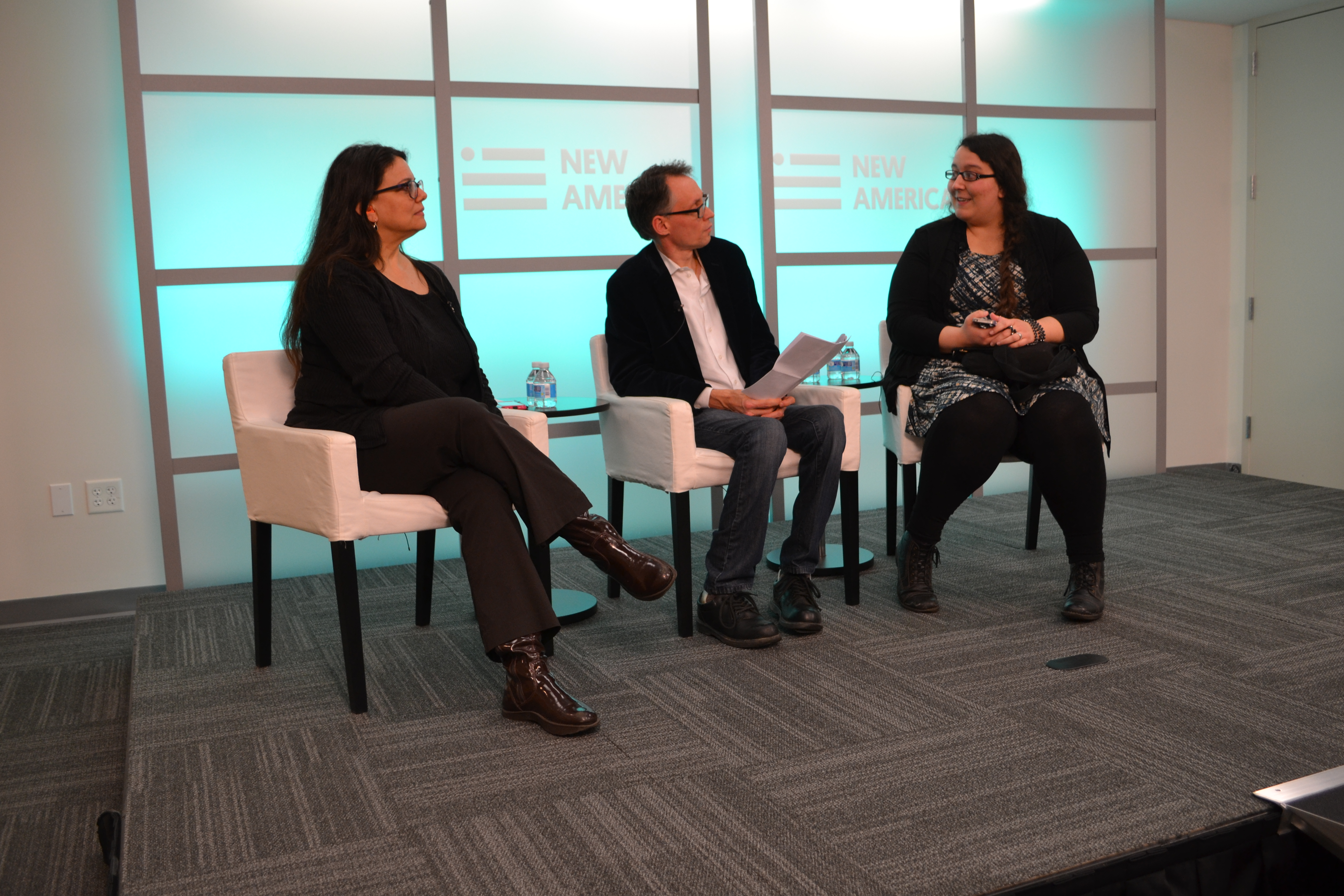 Teresa Blankmeyer Burke (Gallaudet University), Lawrence Carter-Long ( National Council on Disability), Julia Bascom (Autistic Self Advocacy Network)